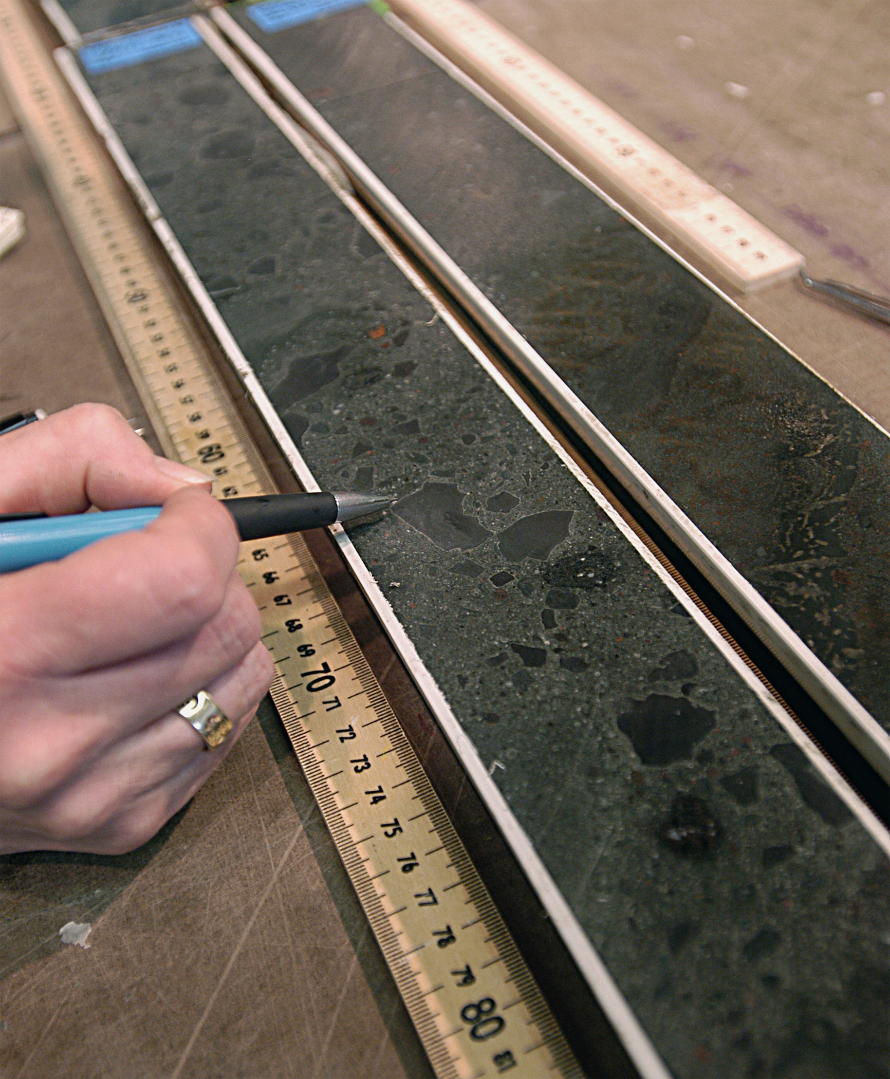 A scientist points to an interesting feature in a slide of sediment core as part of the ANtarctic geological DRILLing program known as ANDRILL. Sediment and rock core were analyzed to study climate change. To learn more, visit